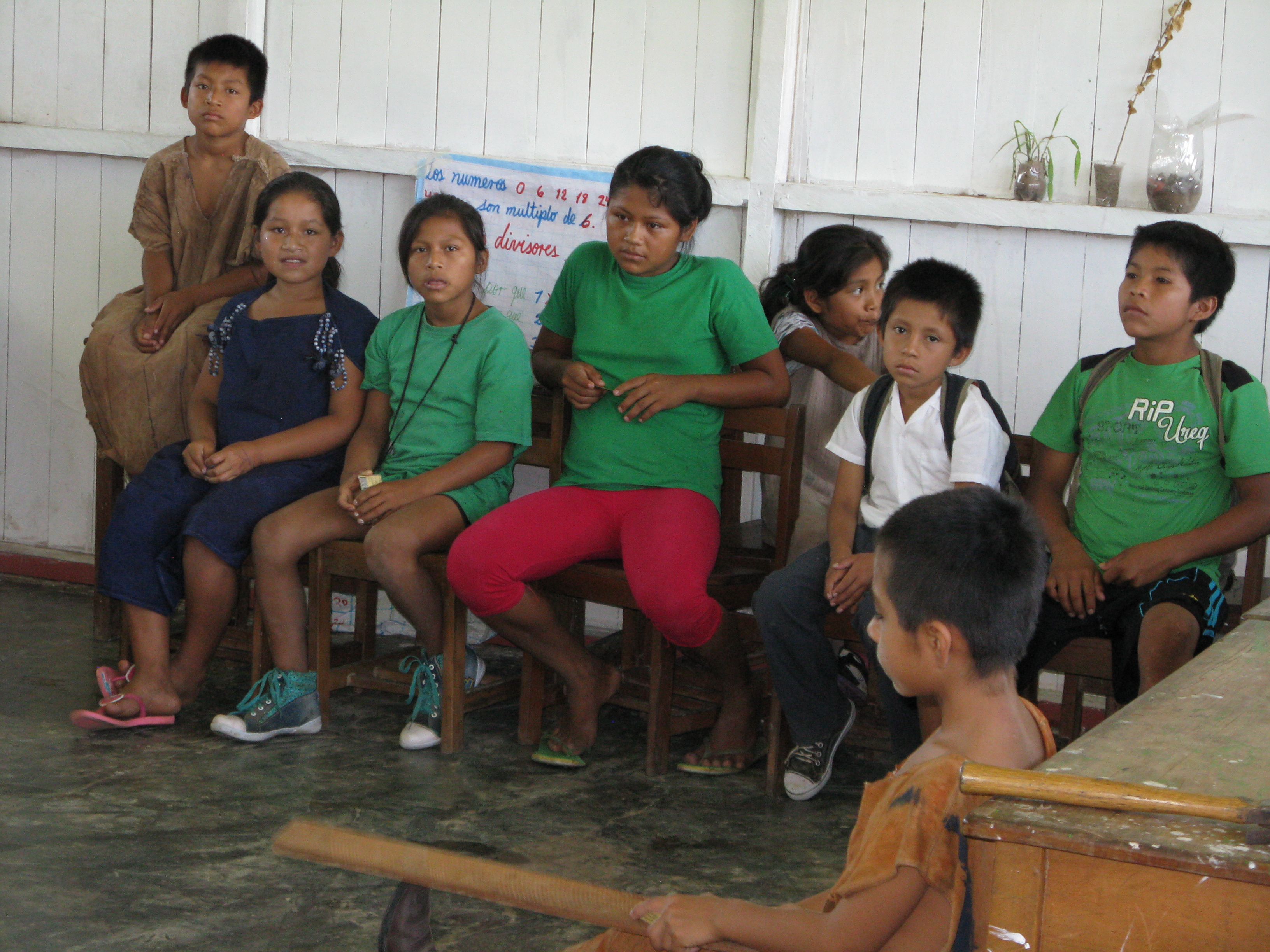 Children of the people Asháninka in school, in Peru, Comunidades Nativas Asháninka "Nuevos Unidos Tahuantinsuyo", (Province Puerto Inca, District Huánuco)